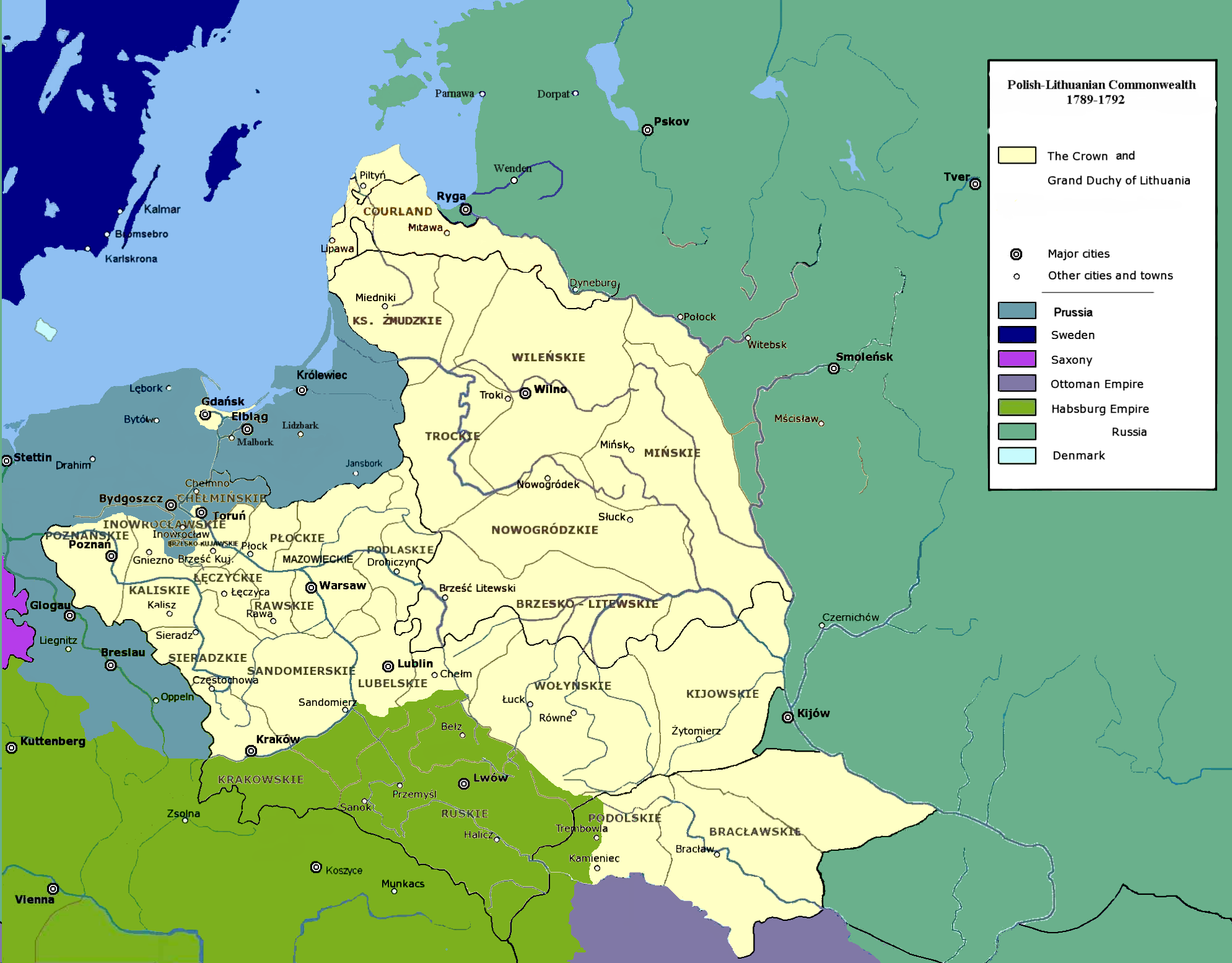 Polish-Lithuanian Commonwealth 1789-1792